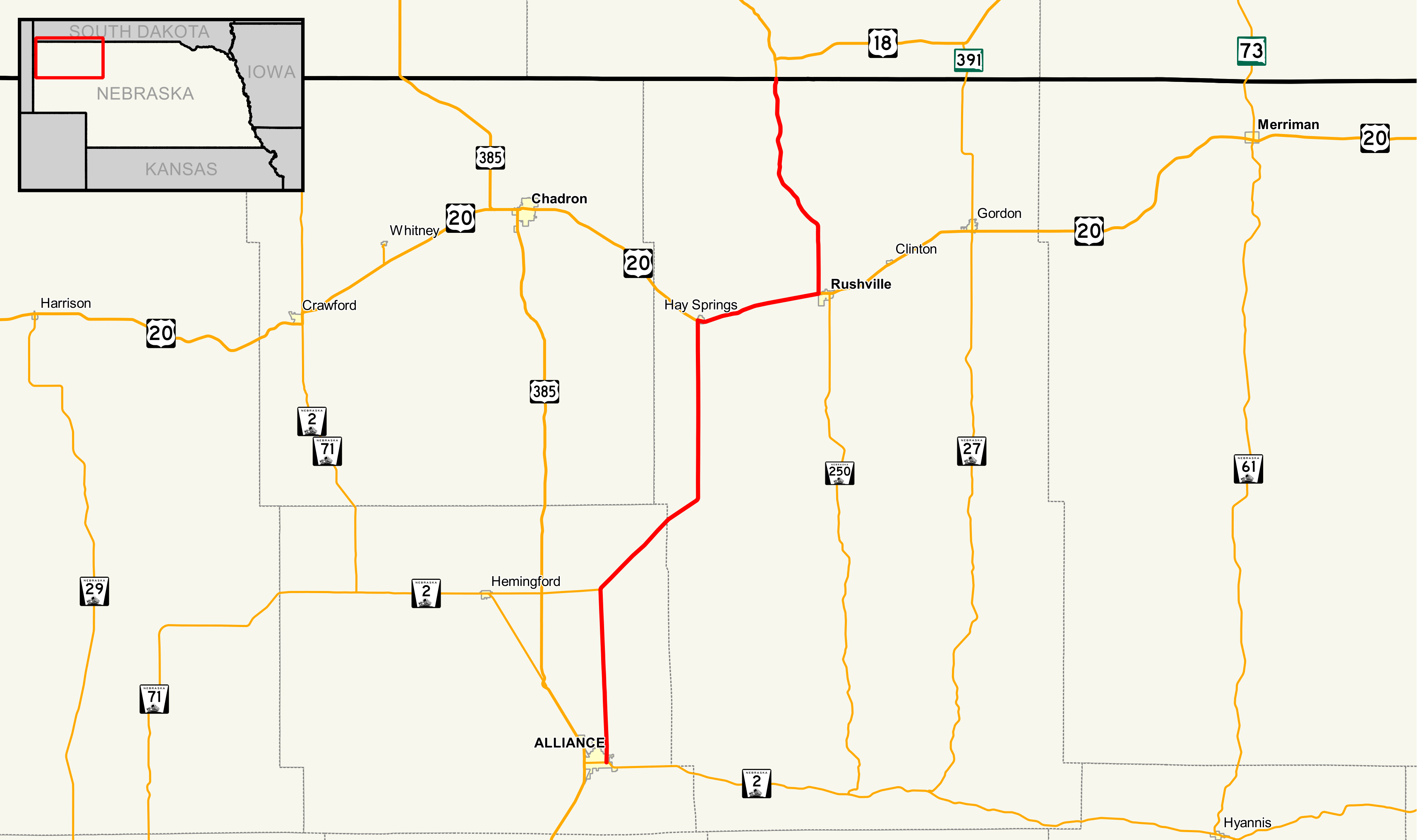 Map of Nebraska Highway 87 Data Sources: Nebraska Highways - - Dec 2016 Nebraska County Boundaries - - Dec 2016 Nebraska City Boundaries - - Dec 2016 This PNG graphic was created with QGIS